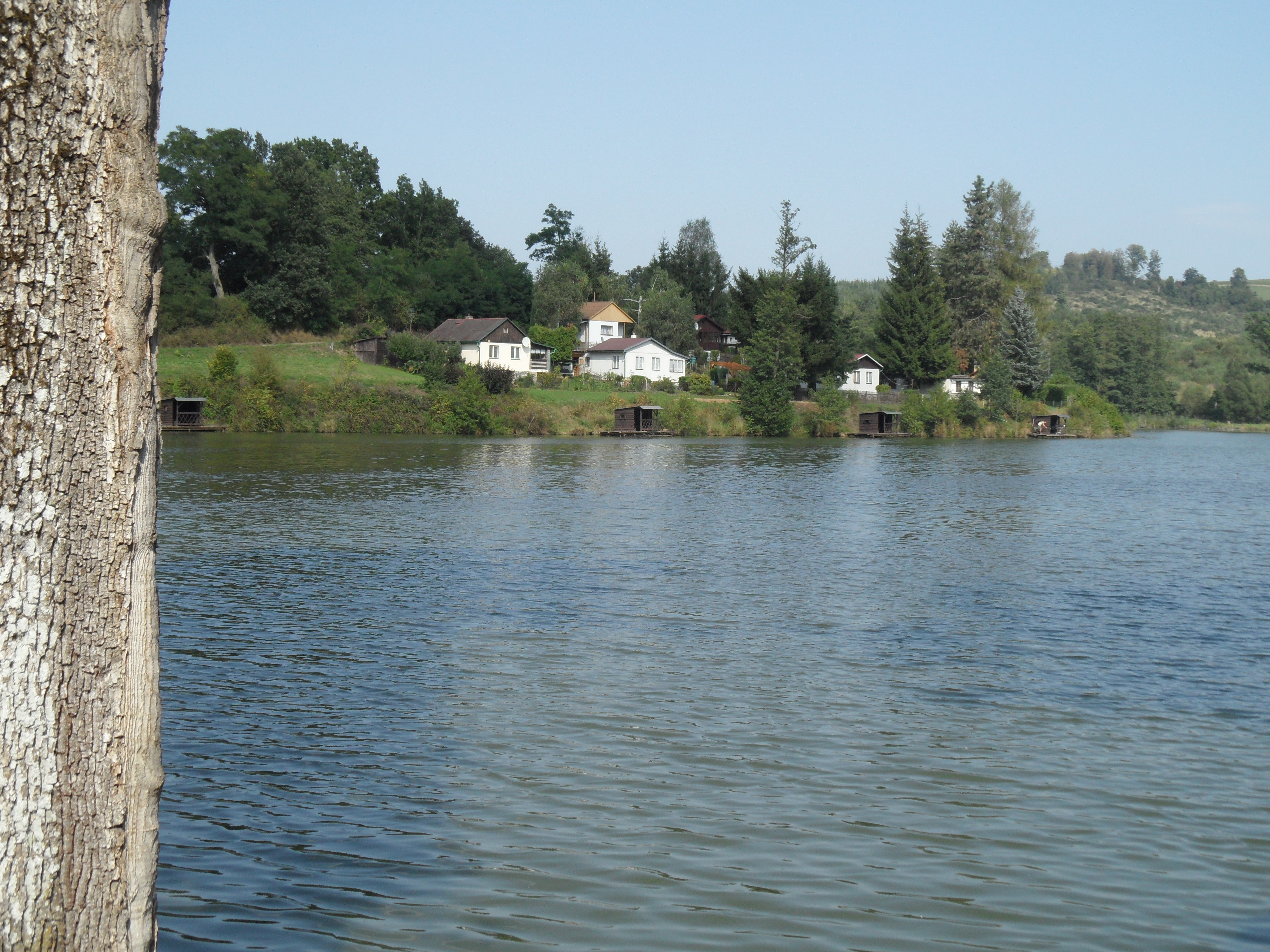 Panský rybník A. View from Dam to Northern Bank with Cottages, Kutná Hora District, the Czech Republic.